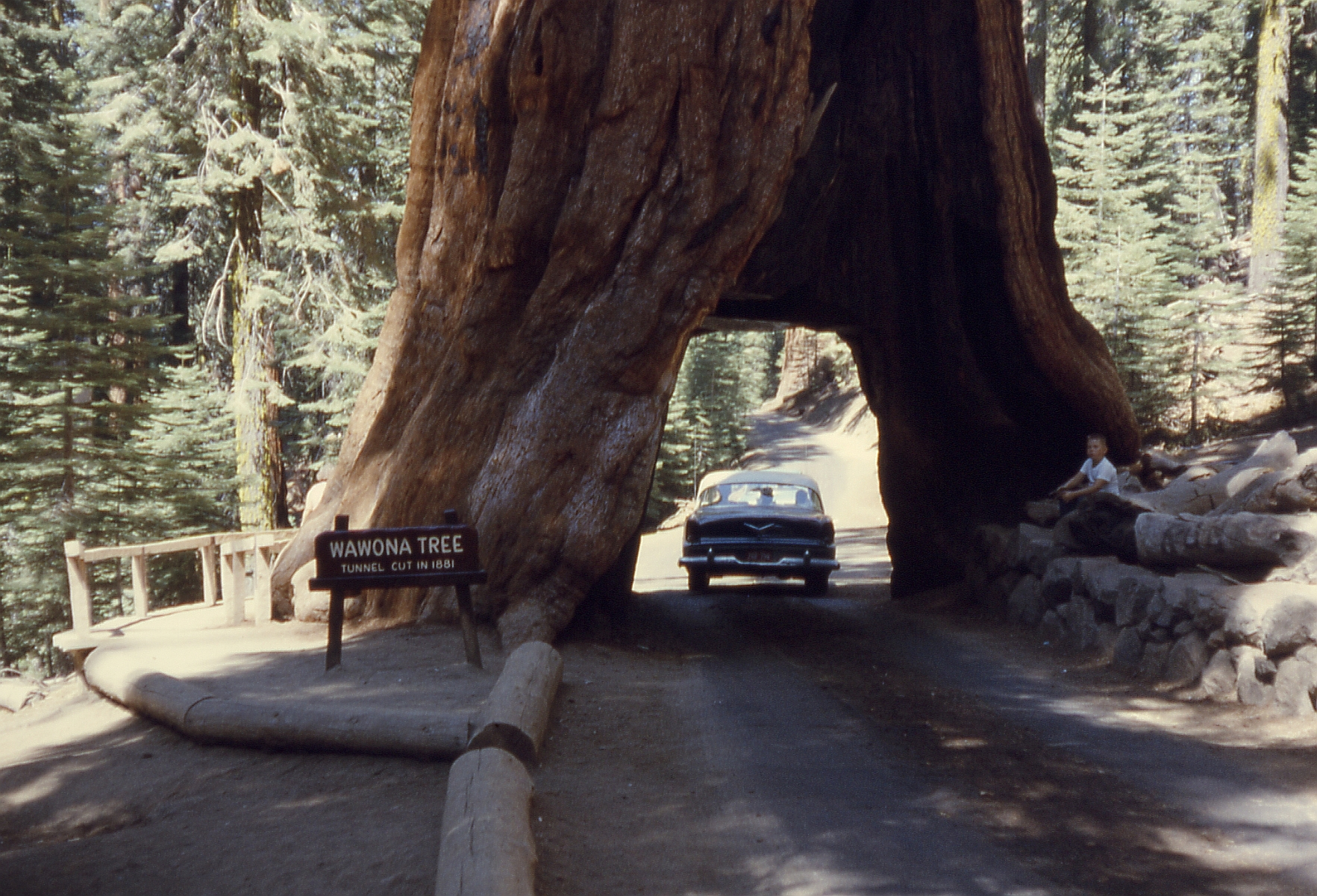 The Wawona Tunnel Tree, in Yosemite National Park